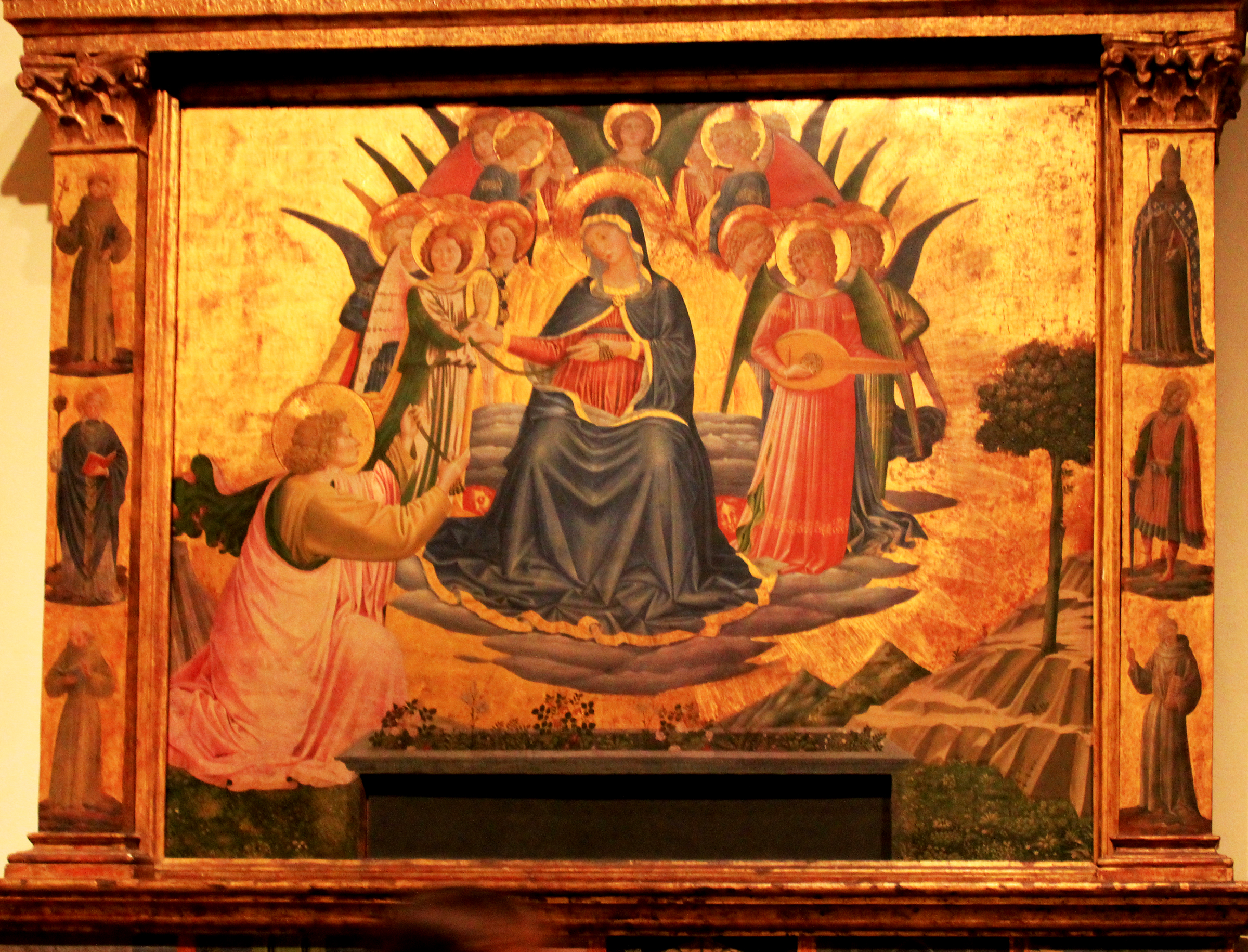 Painting of Benozzo Gozzoli "Madonna of the Girdle" in Pinacoteca Vaticana, Vatican Museums in Vatican City, Rome